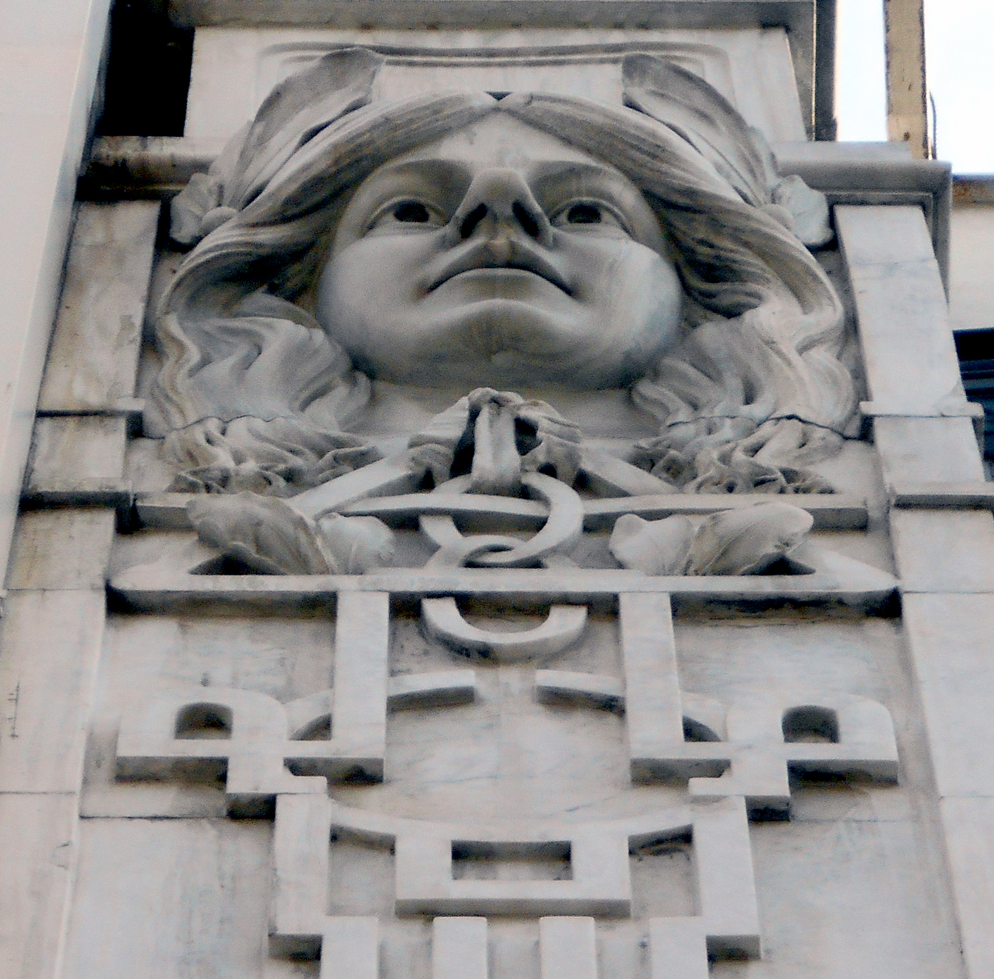 The relief in the Art Nouveau style, on the building in 16 Kralja Petra street in Belgrade, Serbia